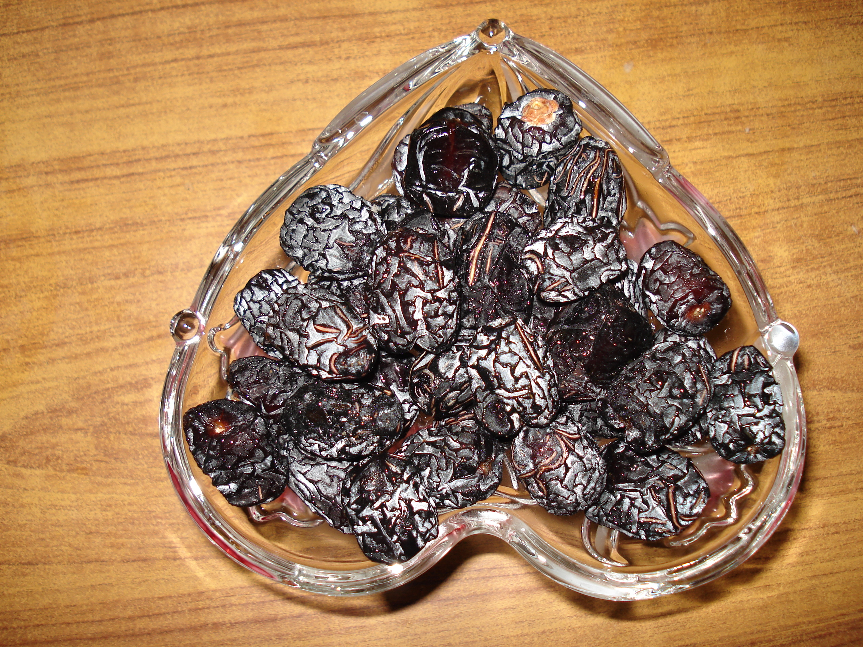 Ajwa dates liked by Islamic prophet Muhammad